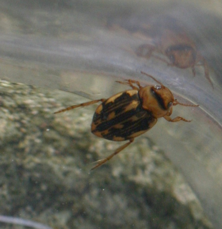 Pencaitland, East Lothian, Scotland